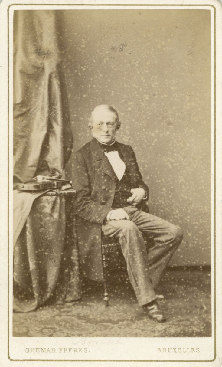 Artist: Chémar Fréres Date/place: Unknown date/Bruxelles Subject: Charles Auguste de Beriot Medium: Photographic posetiv Notes: Belgian composer. Born in Leuven 22.02. 1802 - dead in Paris 08.04. 1870 Original belongs to the Archives at [#//bergenbibliotek.no/digitale-samlinger” Bergen Public Library]